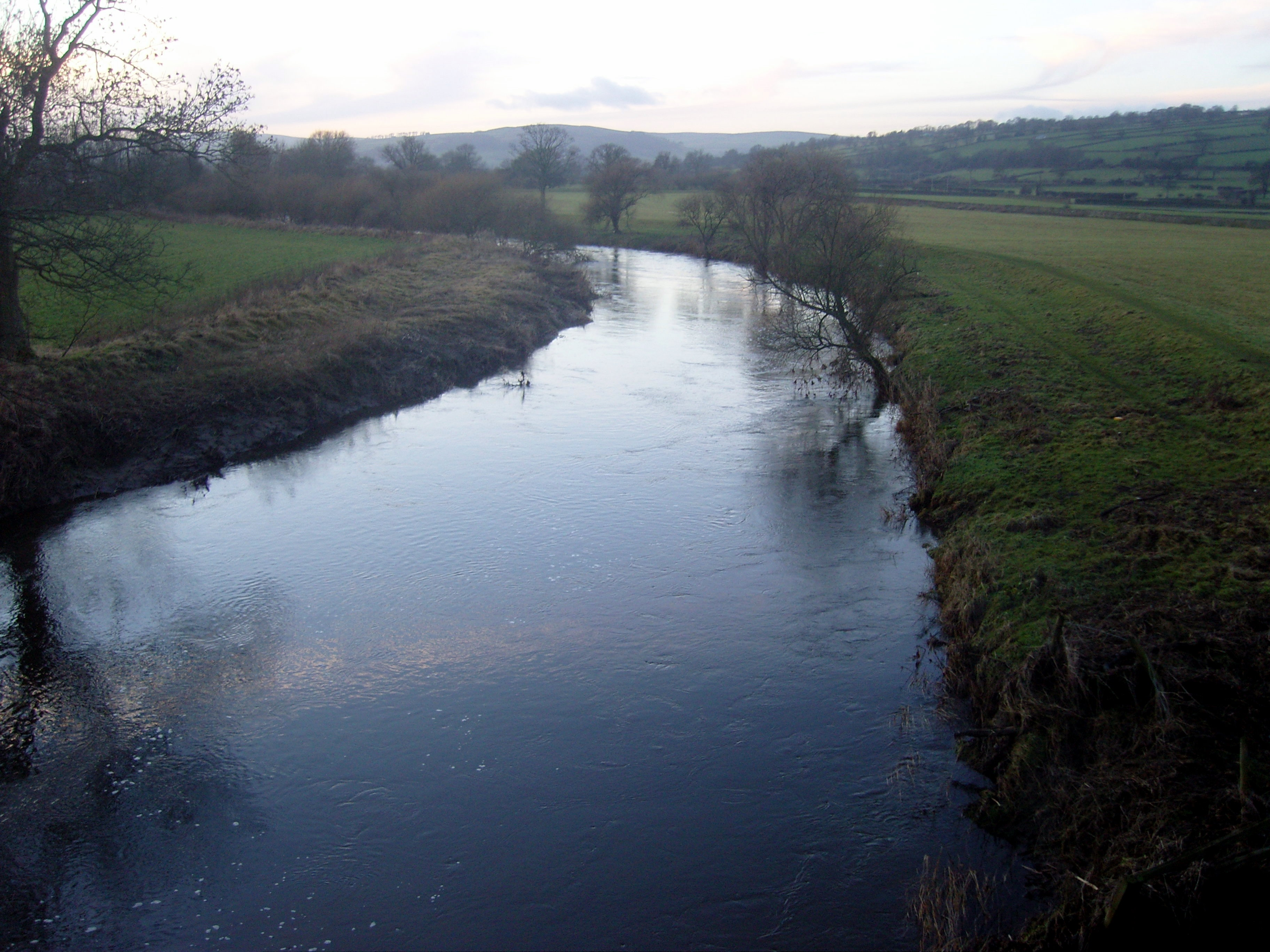 River Aire near Silsden, West Yorkshire